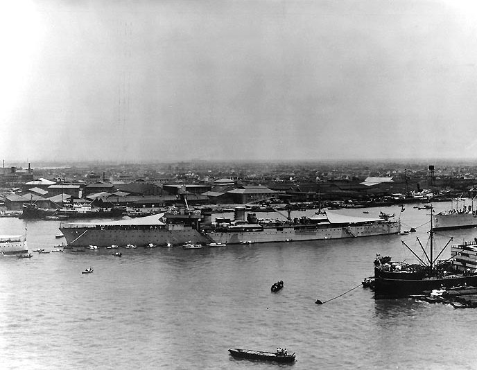 The French light cruiser Lamotte-Picquet moored off Shanghai, China, probably in late May or early June 1939. At left is the stern of the British light cruiser Birmingham (C19). The bow of the U.S. Navy troop transport USS Chaumont (AP-5) is at right, immediately astern of Lamotte-Picquet. Also present are the Danish steamer Promise (beyond Lamotte-Picquet's bow), the British steamer Yingchow (right background) and the British steamer Shantung (partially visible in the right foreground)